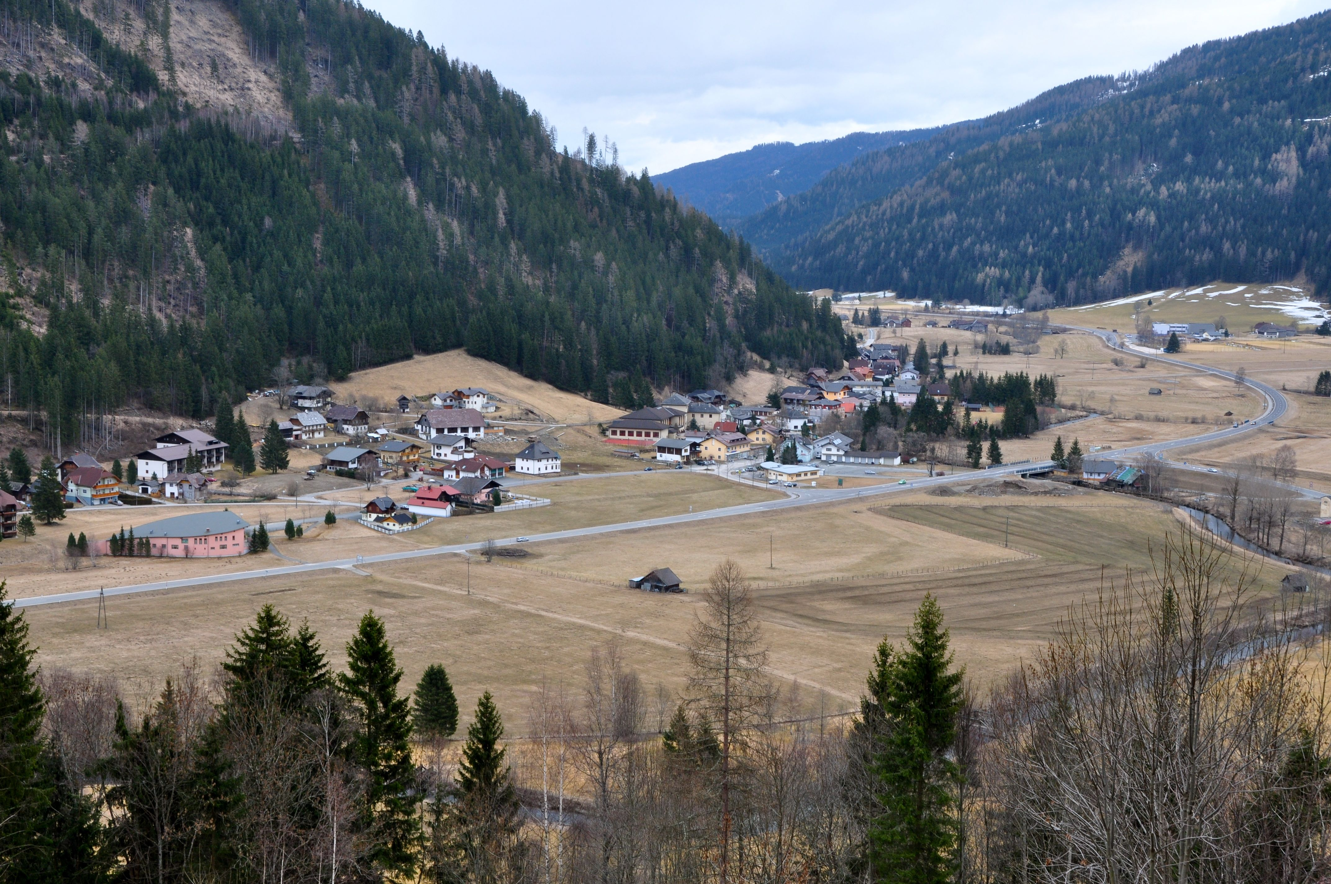 View at the upper Gurk valley with the village Patergassen, municipality Reichenau, district Feldkirchen, Carinthia, Austria